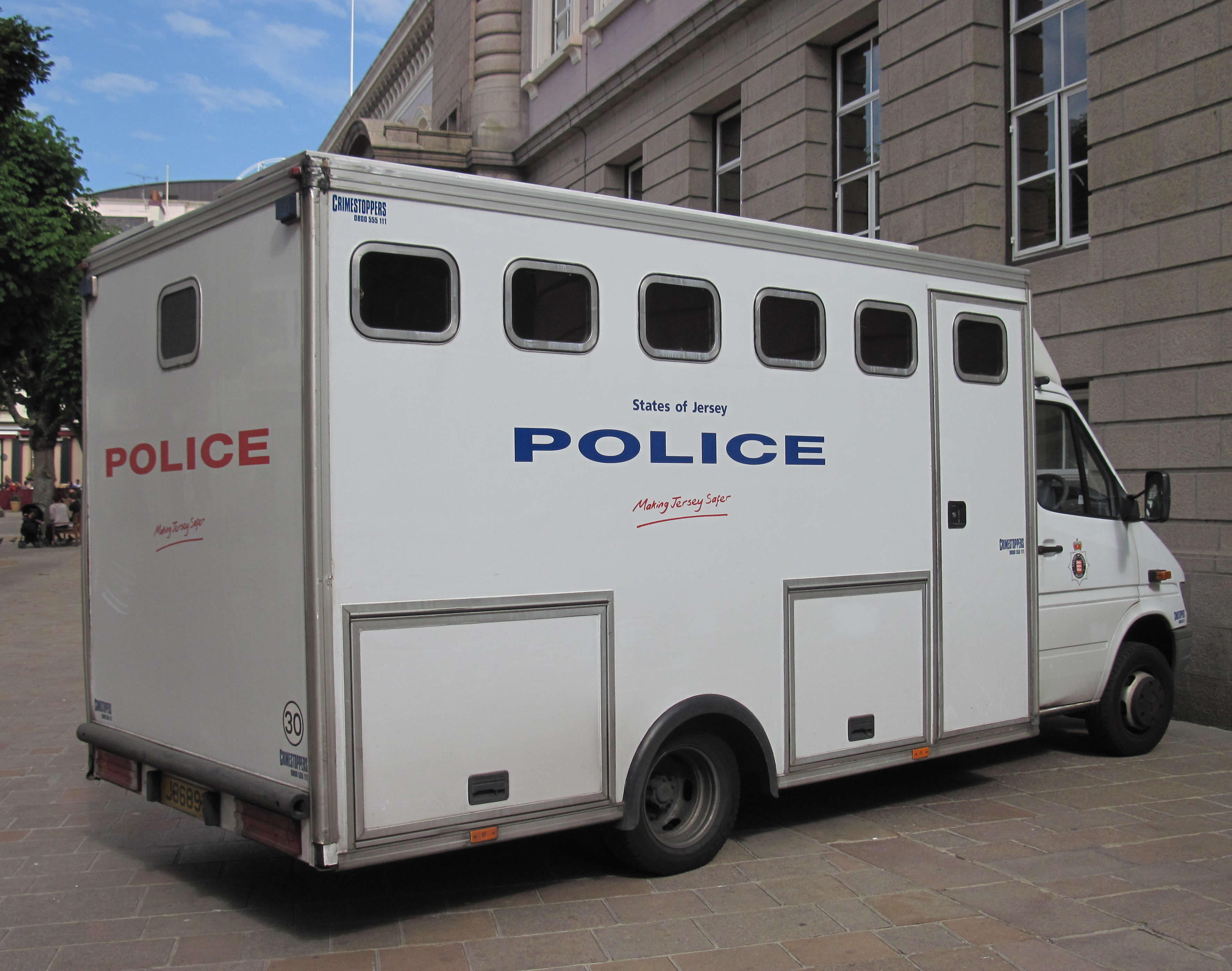 States of Jersey Police van in the Royal Square, Saint Helier